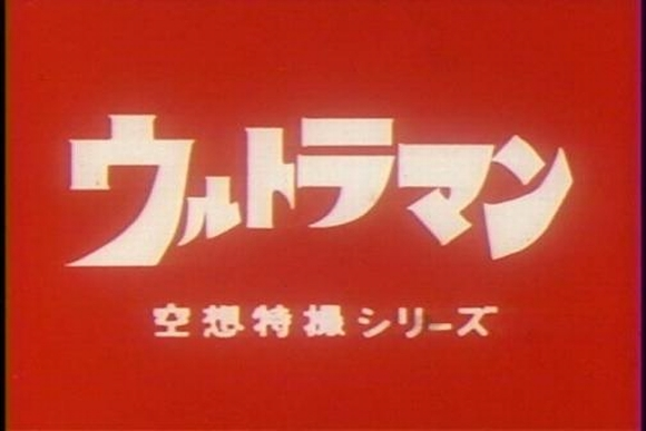 Title card from "Urutoraman: Kūsō Tokusatsu Shirīzu"